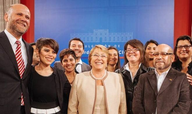 MOVILH